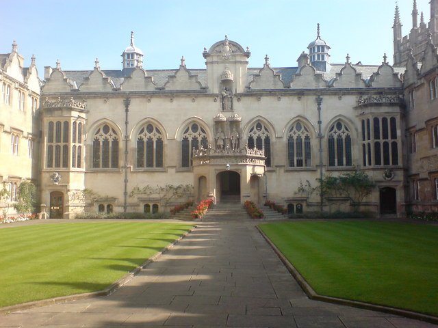 The hall at Oriel College, Oxford Looking at the East Range of the Front Quad at Oriel College. The Hall Porch in the centre has statues over the entrance of Edward II and probably Charles II as the porch was built in Charles' reign.